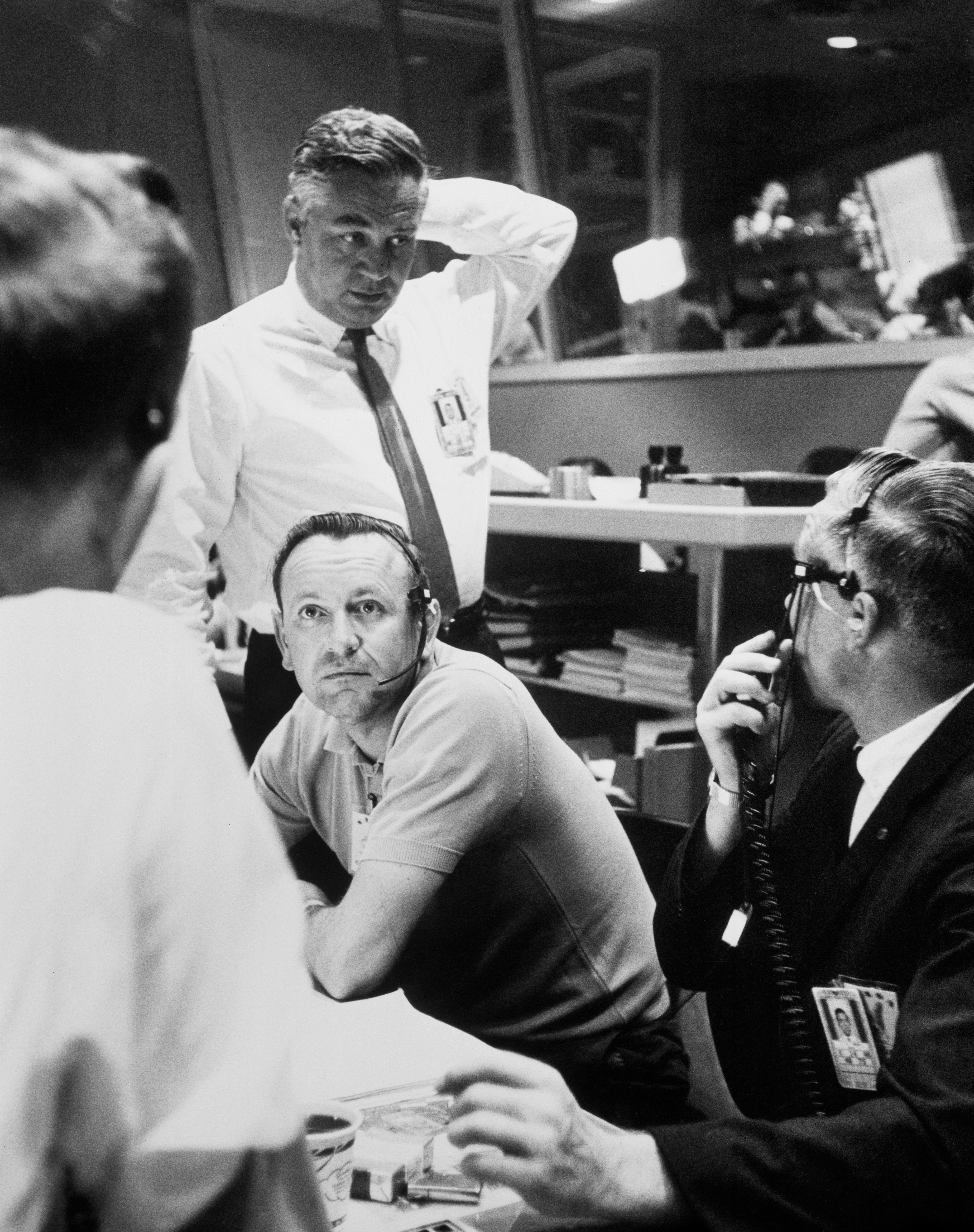 Walter C. Williams and Chris Kraft in Mercury Control Center Walter C. Williams (standing, rear) flight Operations Director, and Chris Kraft (seated) Chief of the Flight Operations Division, Manned Spacecraft Center, are shown in Mercury Control Center as the decision to go for the full 22 orbits is made.